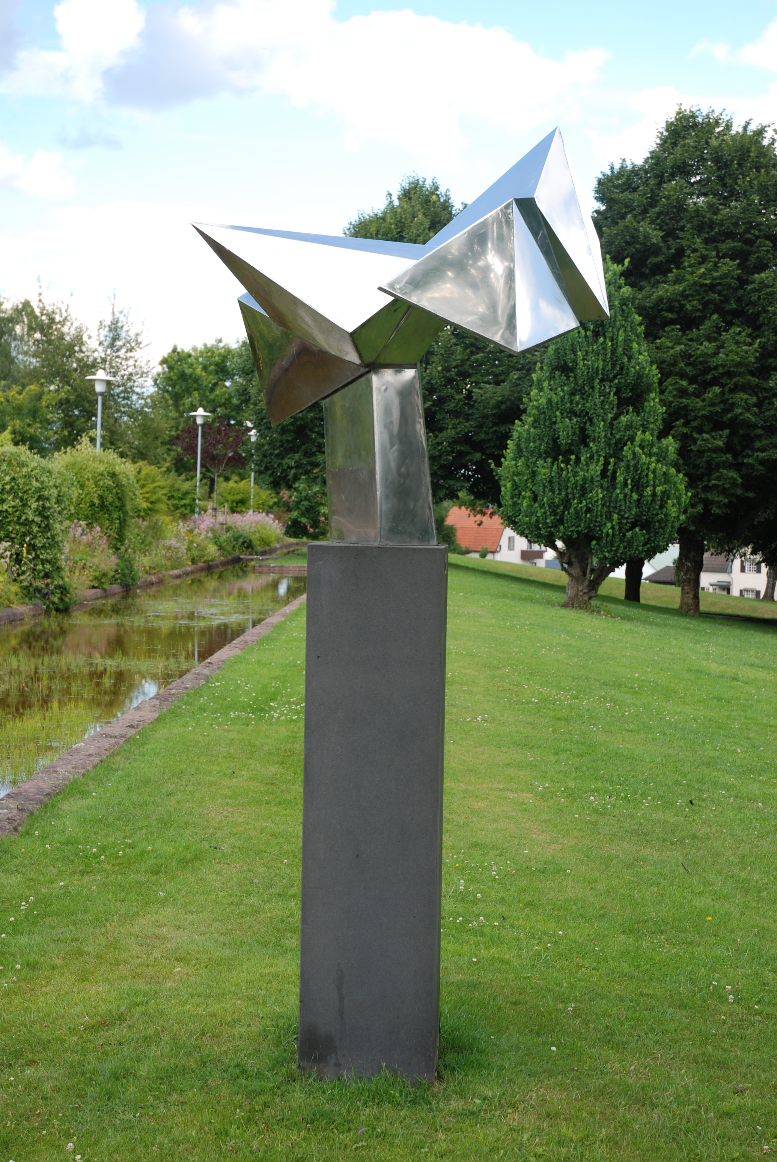 Roland Anderssons Iskristaller i Gislaved, 1989, rostfritt stål